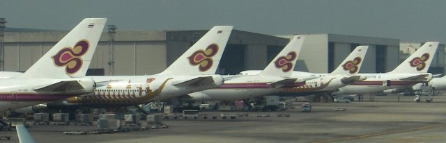 Thai airways aircraft at Bangkok International Airport taken by user:KayEss